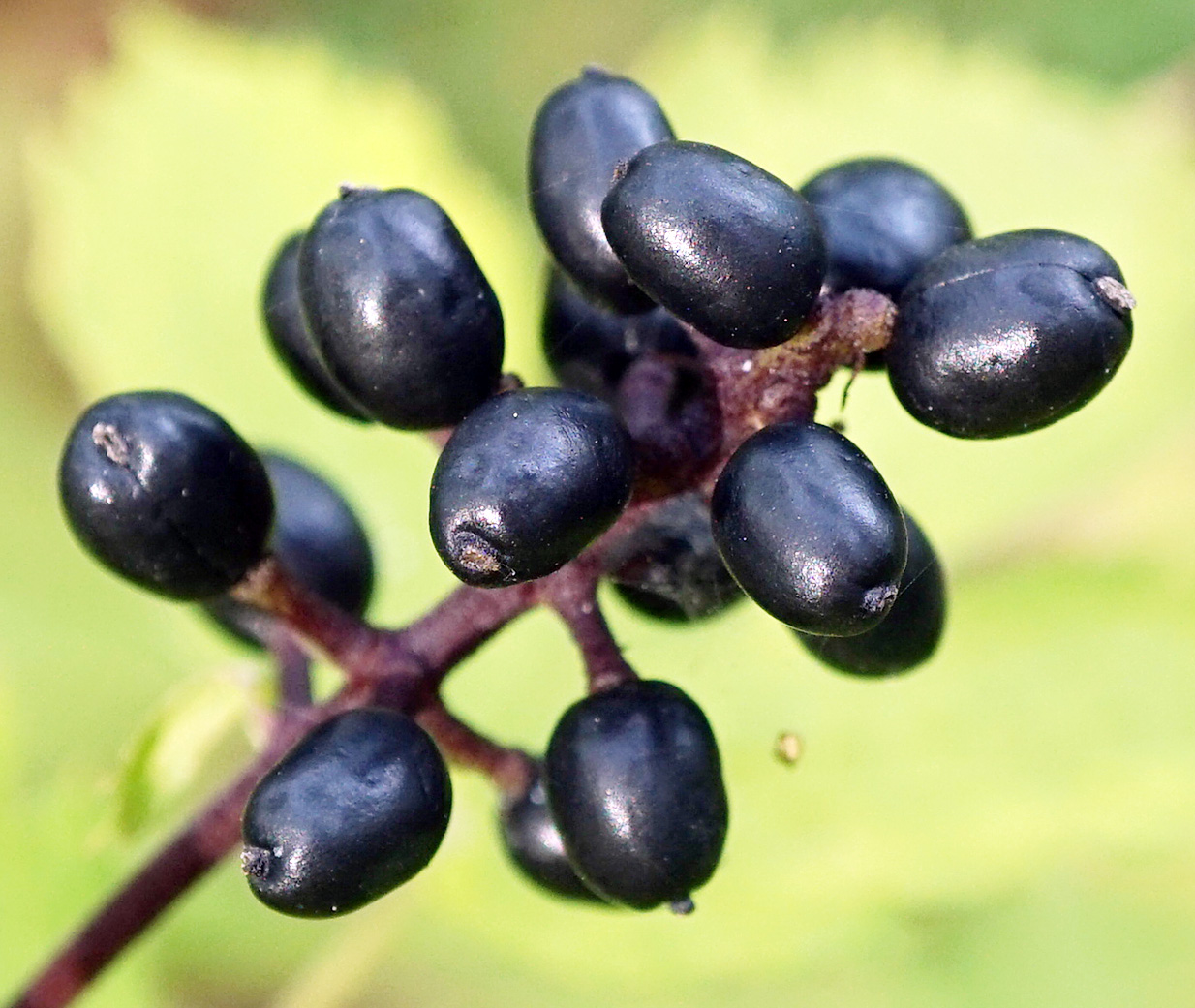 Actaea spicata berries in Jyväskylä, Finland.